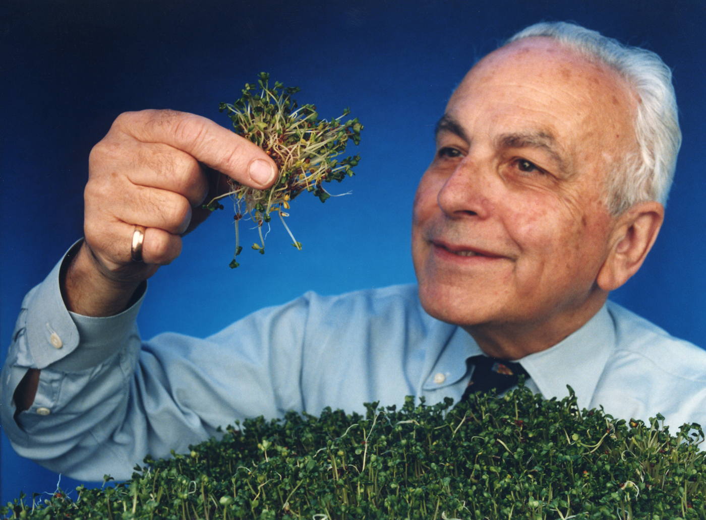 Professor Paul Talalay in a photograph by Oregon State University.